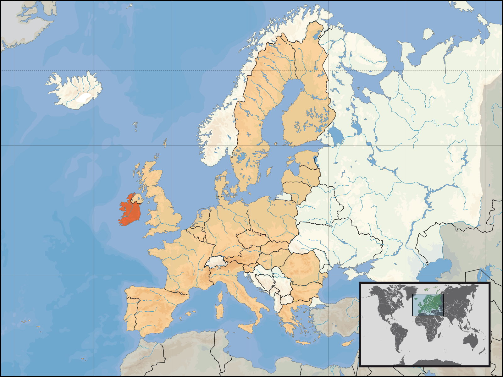 Location of Ireland within Europe and the European Union on the 1st of January 2007.